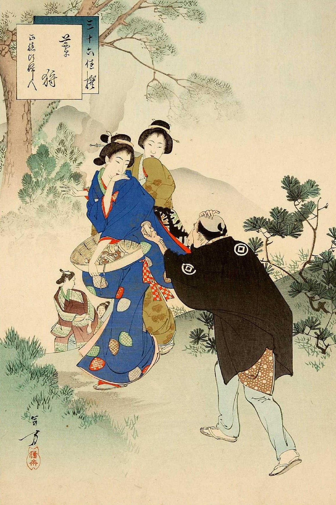 Gathering Mushrooms: Women of the Shōtoku Era[1711-16], from the series Thirty-six Elegant Selections, woodblock print